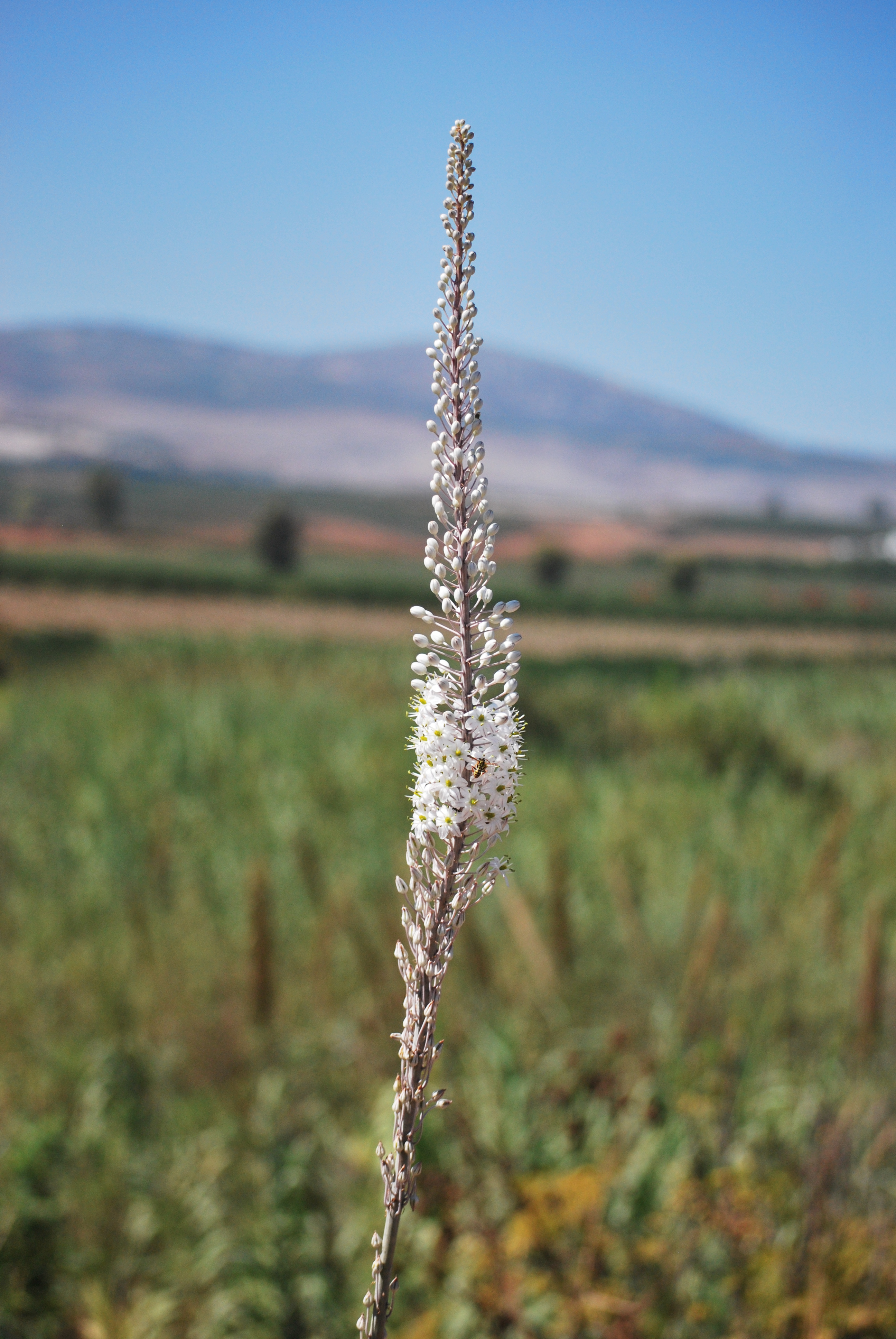 A squill near Senir stream, northern Israel